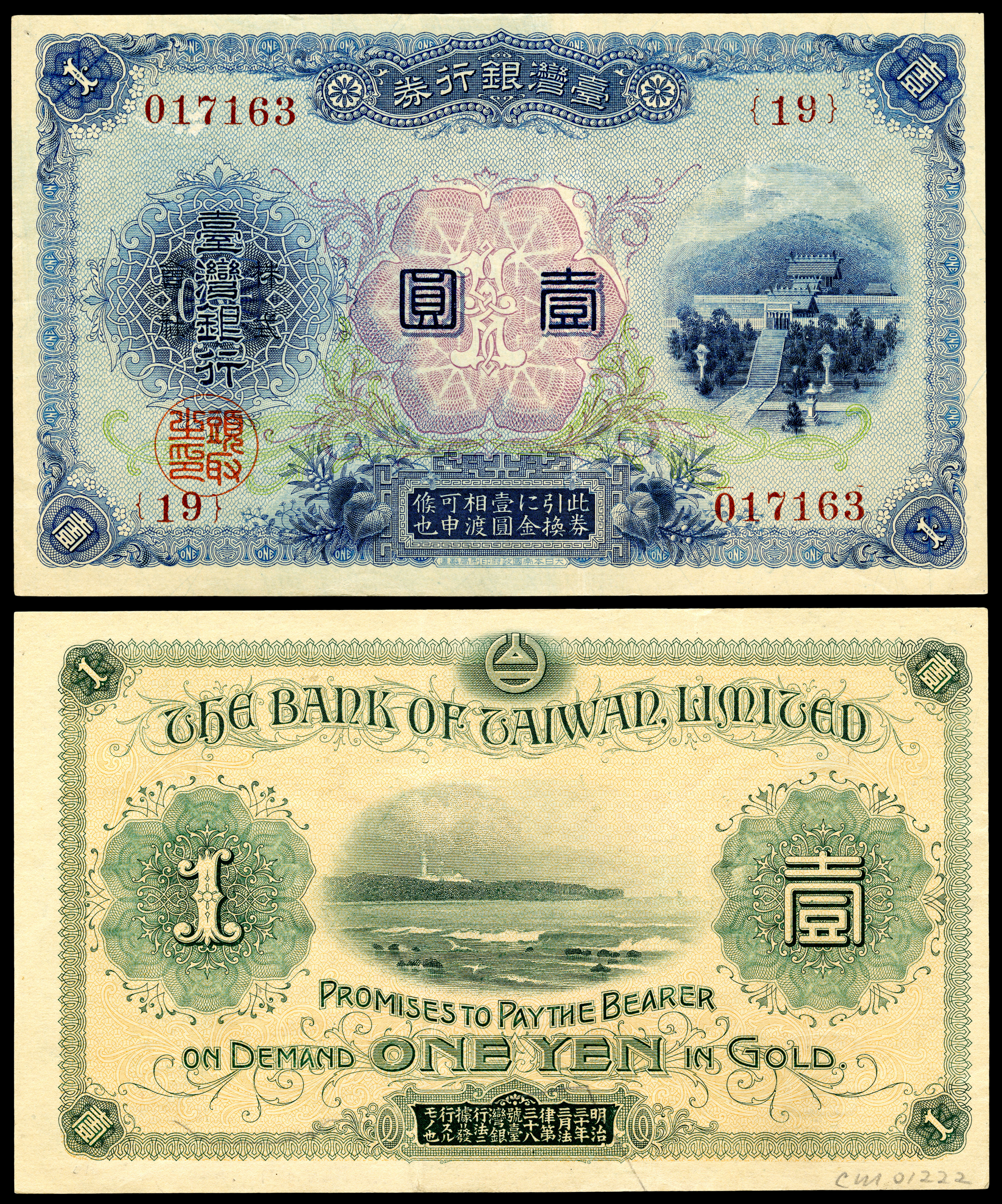 Bank of Taiwan Limited (under Japanese influence), 1 Gold Yen (1915)